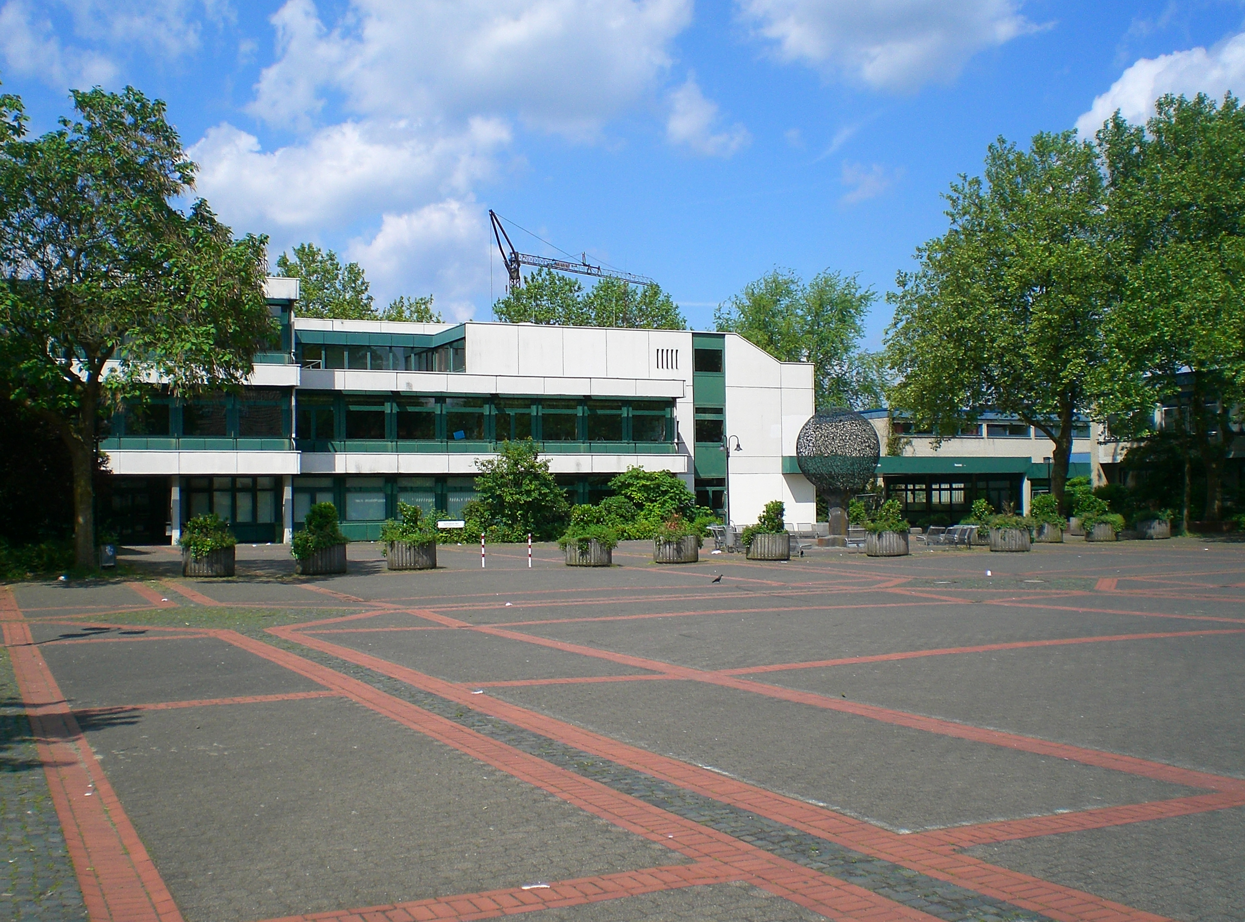 View to the Gymnasium Verl. On the right the sculpture "Lebensbaum".